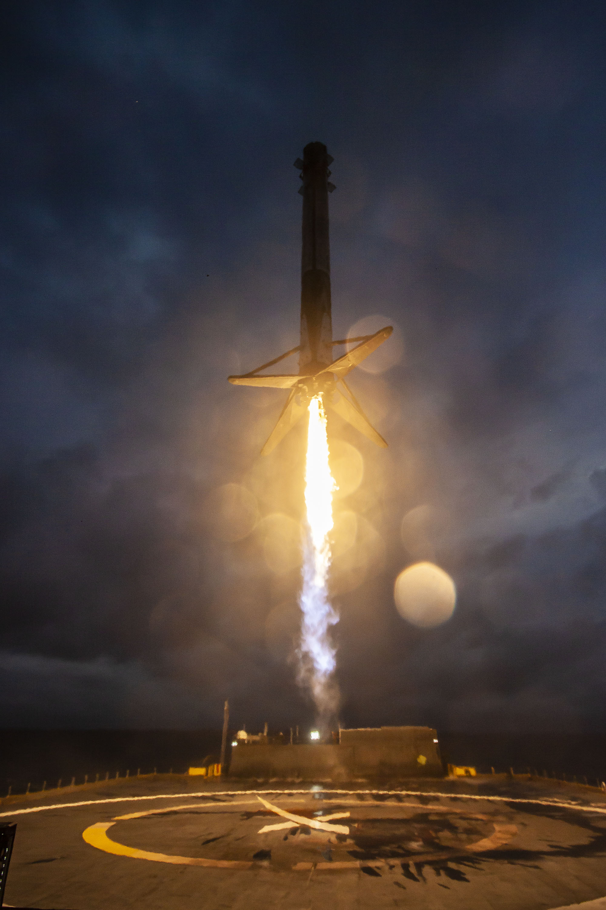 Arabsat-6A Mission